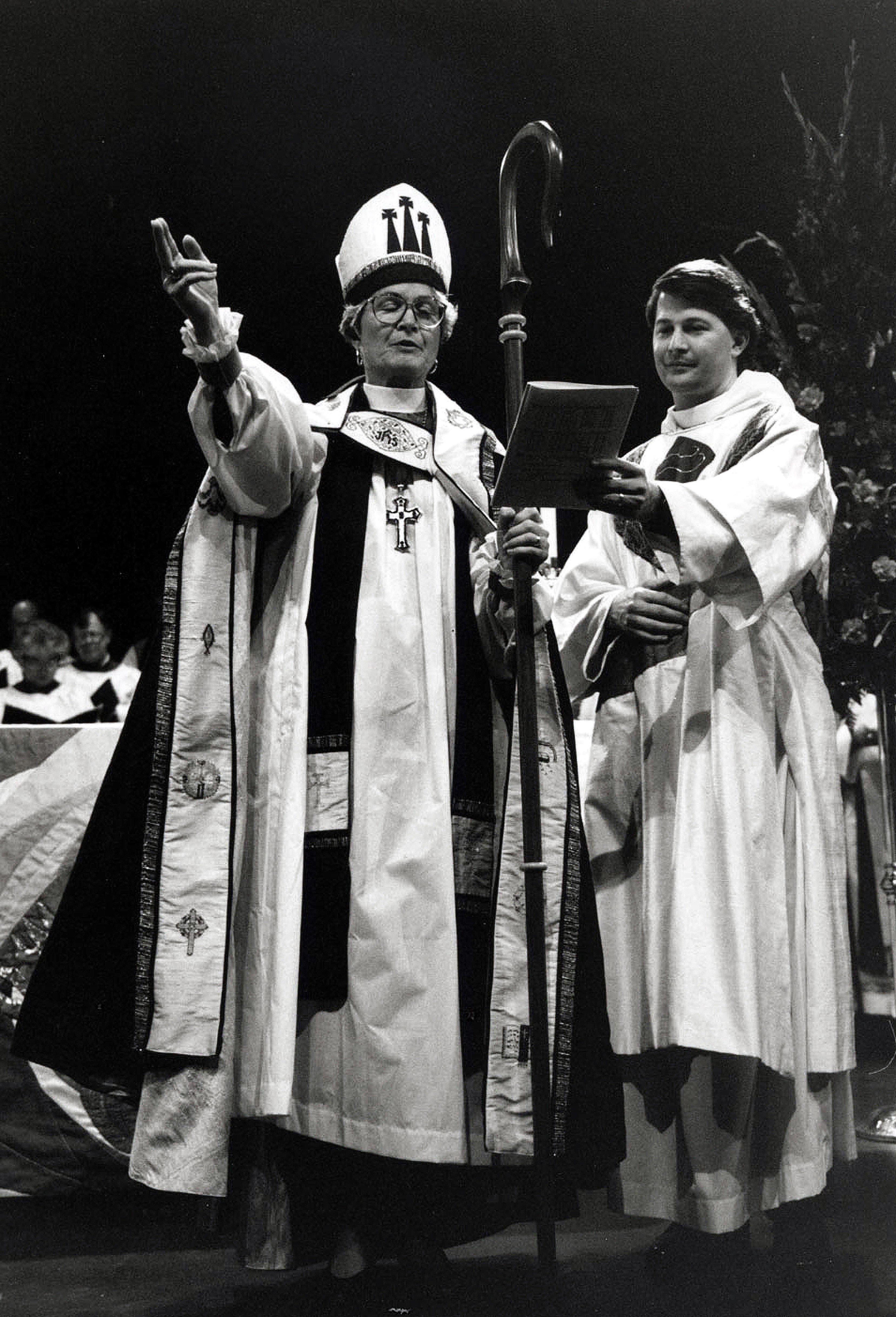 Bishop Mary Adelia McLeod blesses the people at her Consecration on November 1, 1993. Her son The Rev. Harrison M. McLeod stands by her side.